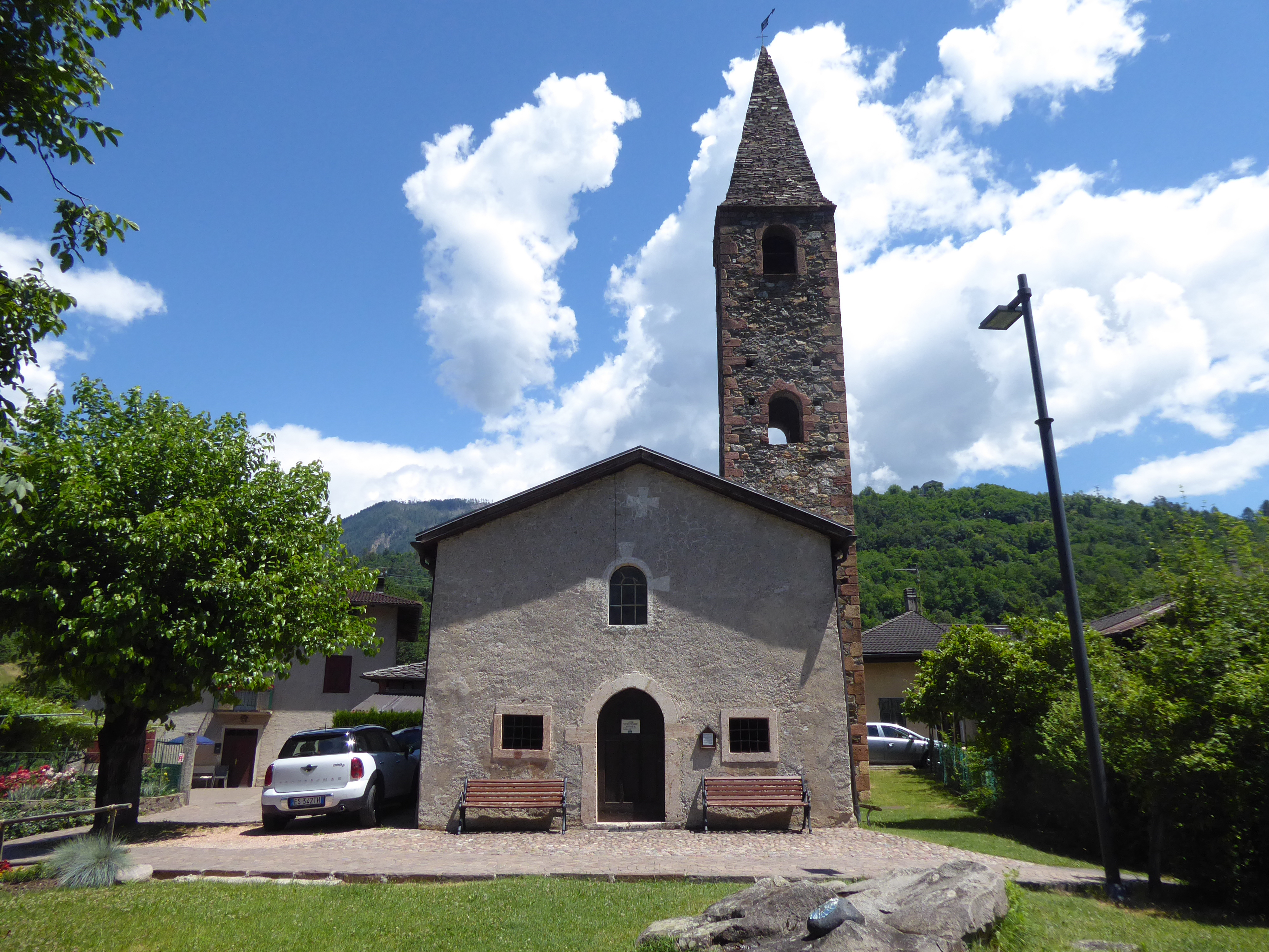 San Cristoforo al Lago (Pergine Valsugana, Trentino, Italy) - Saint Christopher church